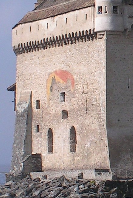 Zoom on an interesting part of the picture (Bern flag painted on one of the wall)